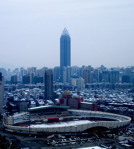 Wenzhou_Sport_center